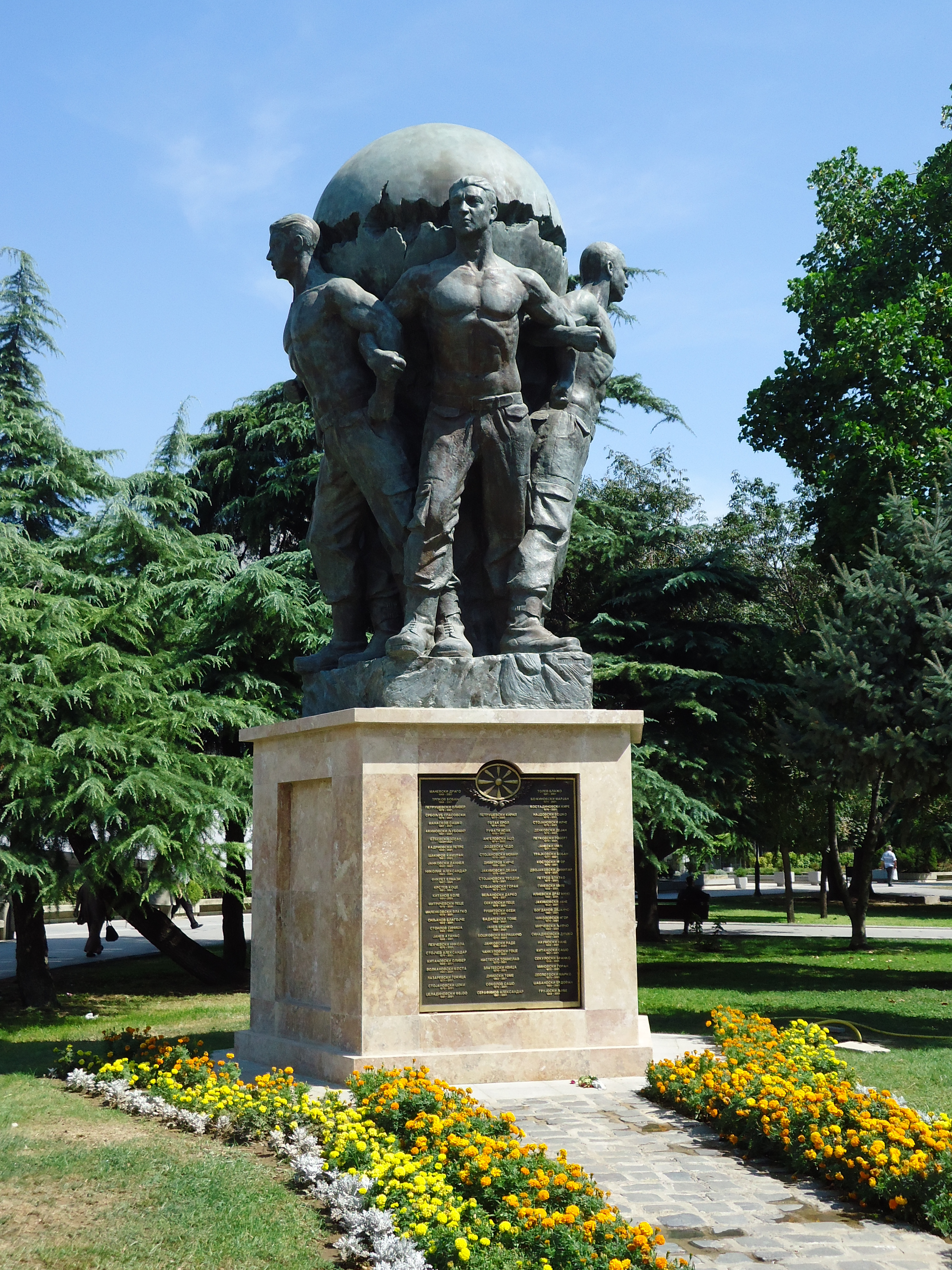 Monument of the Defenders of Macedonia